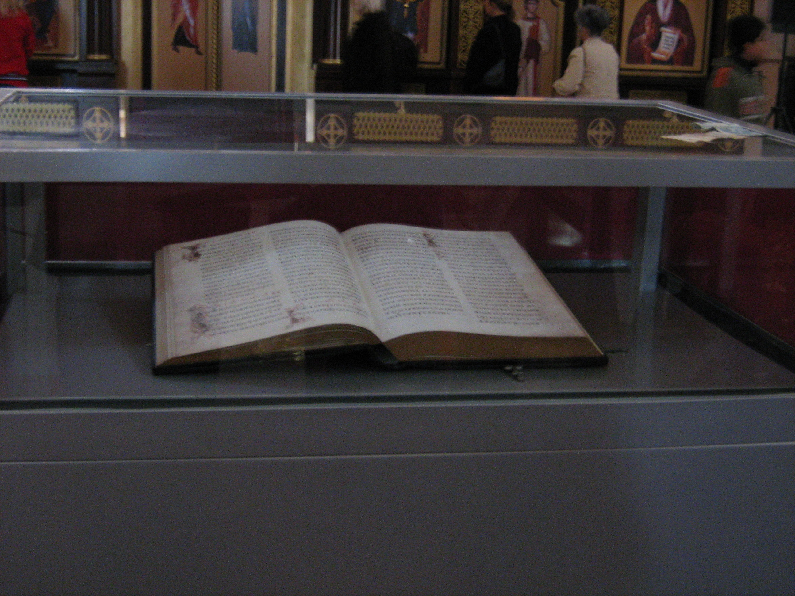 Miroslavs Gospel in Temple of Saint Sava 2007